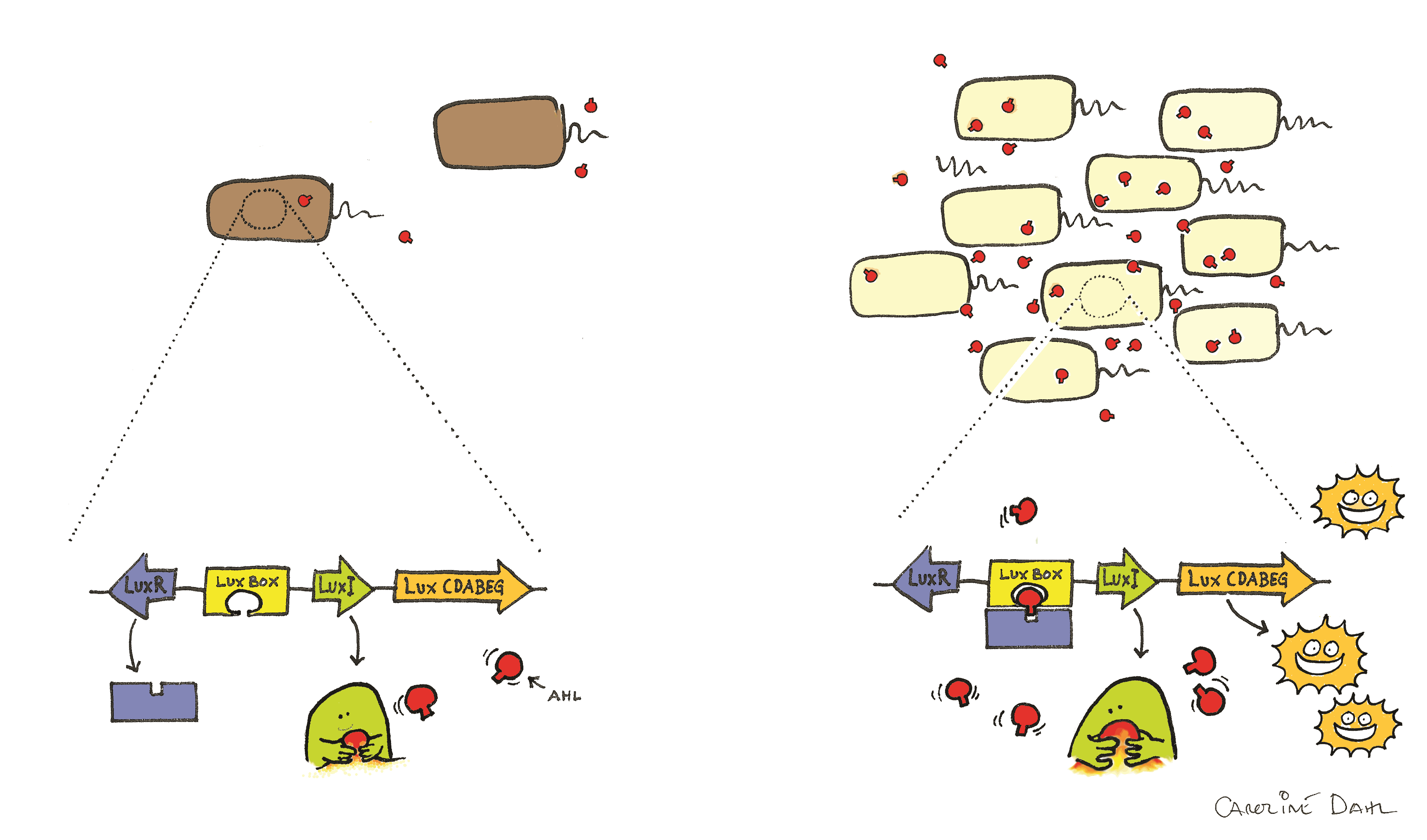 Model of quorum sensing in Vibrio fischeri. LuxI produces Acyl Homoserine Lactone (AHL) which makes it possible for LuxR to bind the DNA 'Lux box'. However a high concentration of AHL is required for LuxR-Lux box binding. This is achieved in the in the squid Vibrio fischeri's light organ. LuxR-Lux box binding activates luciferase genes (luxICDABEG), producing bioluminescent molecules and even more AHL.